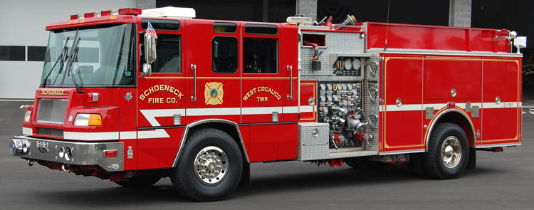 Schoencek PA Firetruck, Engine 1-9-1 Schoeneck, Pennsylvania.